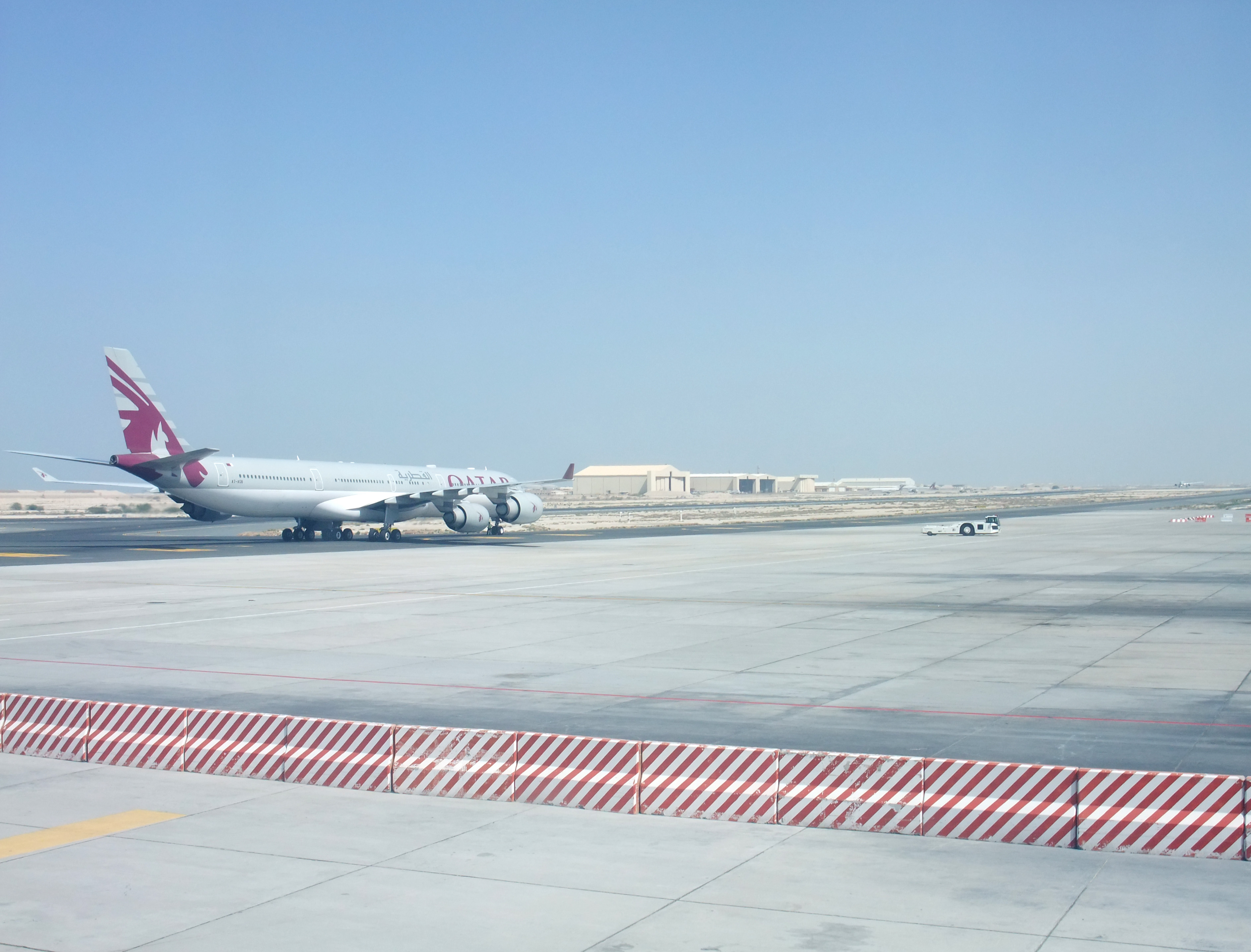 runway of the Doha International Airport